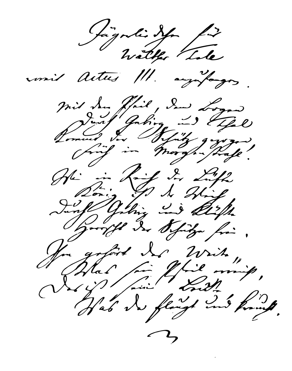 “Jägerliedchen für Walther Tell womit Actus III. anzufangen.” (Walther Tell’s hunting song, to be set at the beginning of Act III.) One of the few surviving manuscript pages of the play Wilhelm Tell.